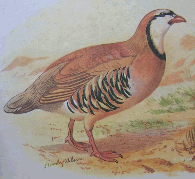 Alectoris chukar Picture from Hume and Marshall, Gamebirds of British India (Pakistan-Republic of India), Burmah (Myanmar) and Ceylon (Sri Lanka), 1880 Note: This illustration is probably inaccurate and should be replaced in the article where used by a good quality photograph when possible.